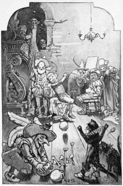 illustration of the Brothers Grimm fairy tale "The tale of a youth who set out to learn what fear was"